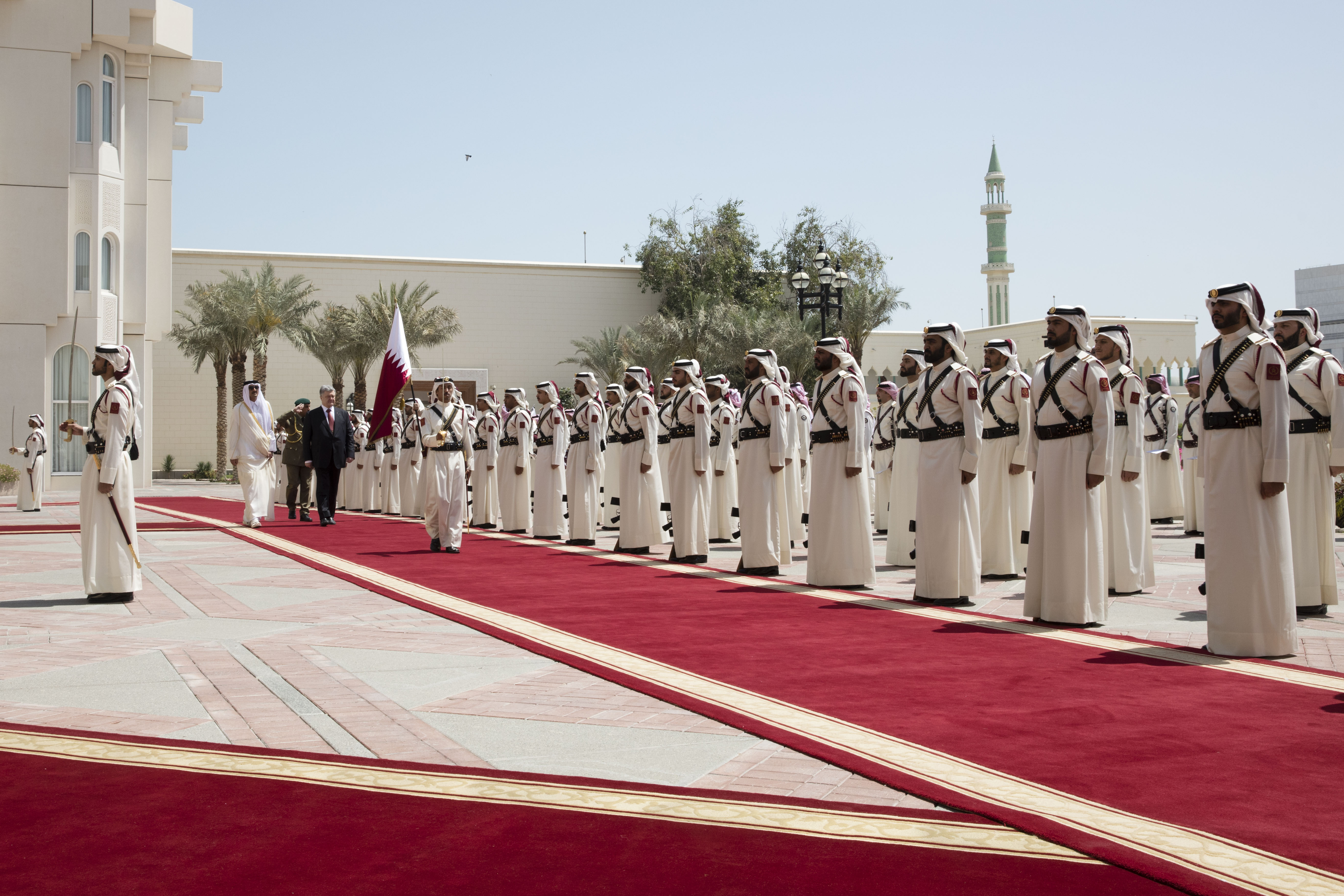 Official visit to Qatar